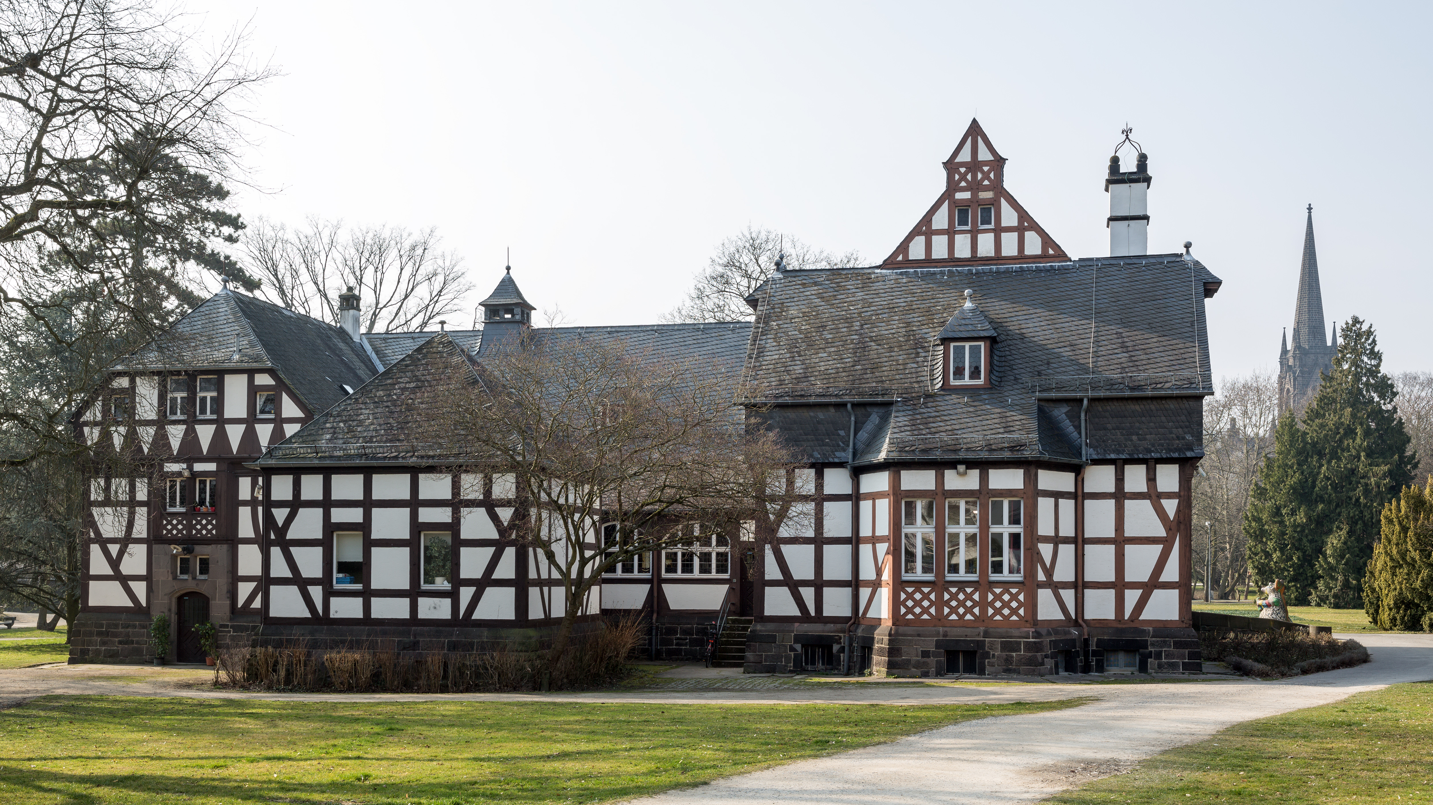 Bad Nauheim: Former Inhalatorium as seen from the northeast